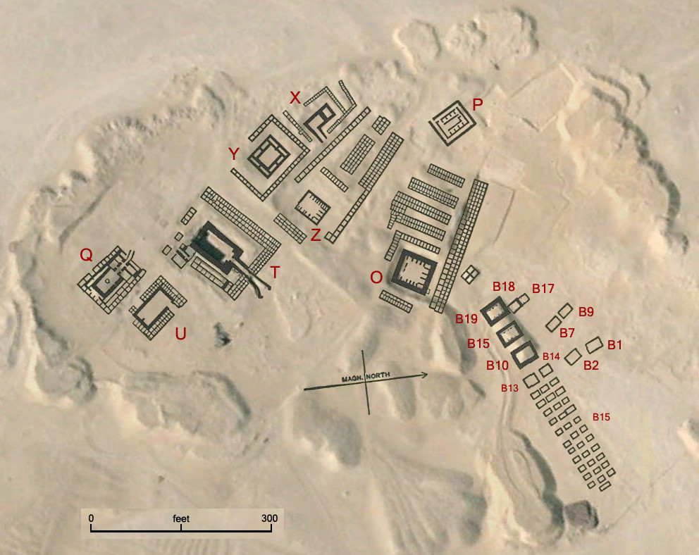 Map overlay of Peqer necropolis at Umm el-Qa'ab near Abydos in Egypt. The tombs of pharaohs are marked with letters. Tomb of Iry-Hor (B1-B2) Tomb of King Ka (B7-B9) 1st Dynasty Tomb of Narmer (B17-B18) Tomb of Aha (B19-B15-B10) Tomb of Djer (O) Tomb of Djet (Z) Tomb of Merneith (Y) Tomb of Den (T) Tomb of Anedjib (X) Tomb of Semerhket (U) Tomb of Qaa (Q) 2nd Dynasty Tomb of Peribsen (P)